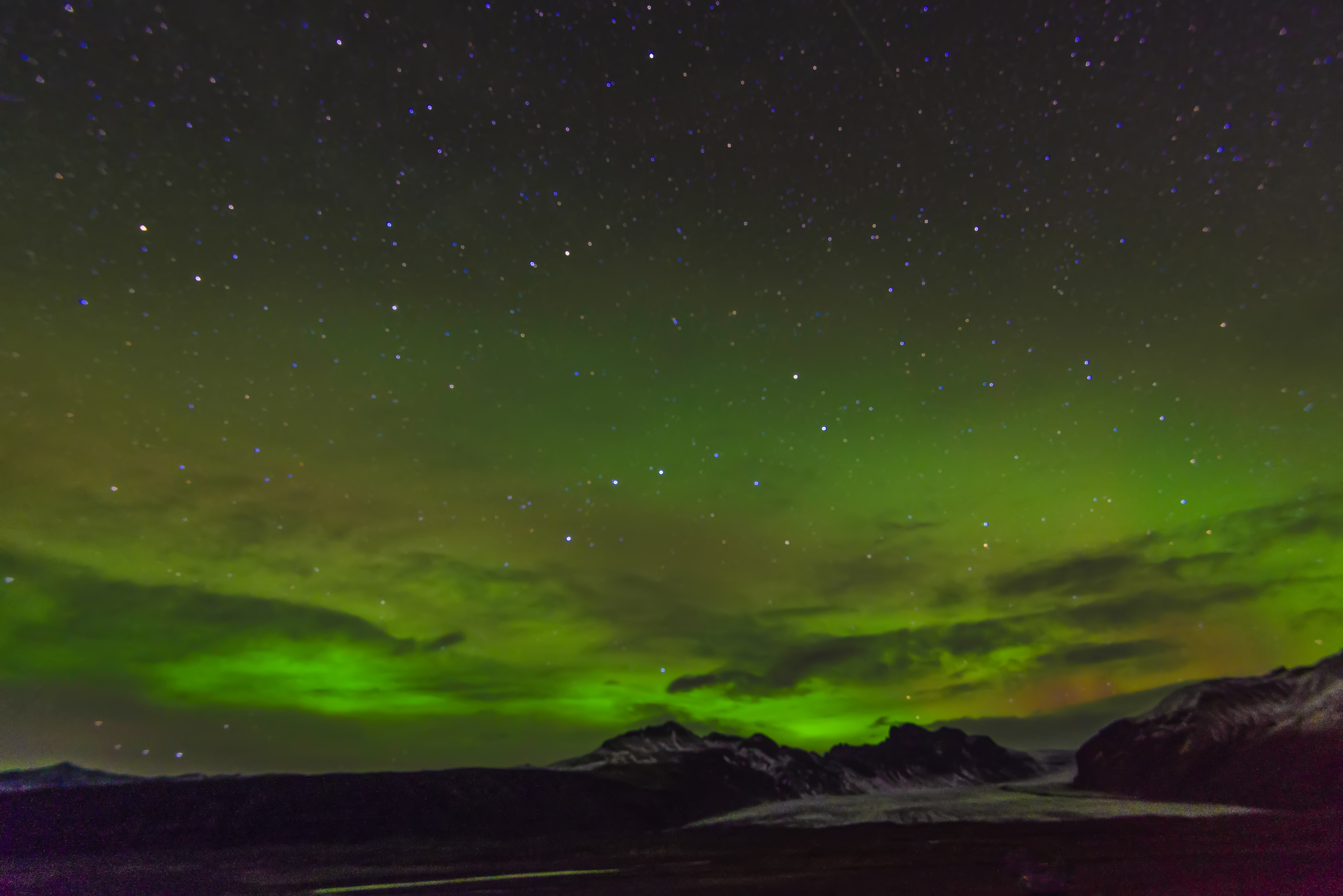 Aurora Borealis, Iceland